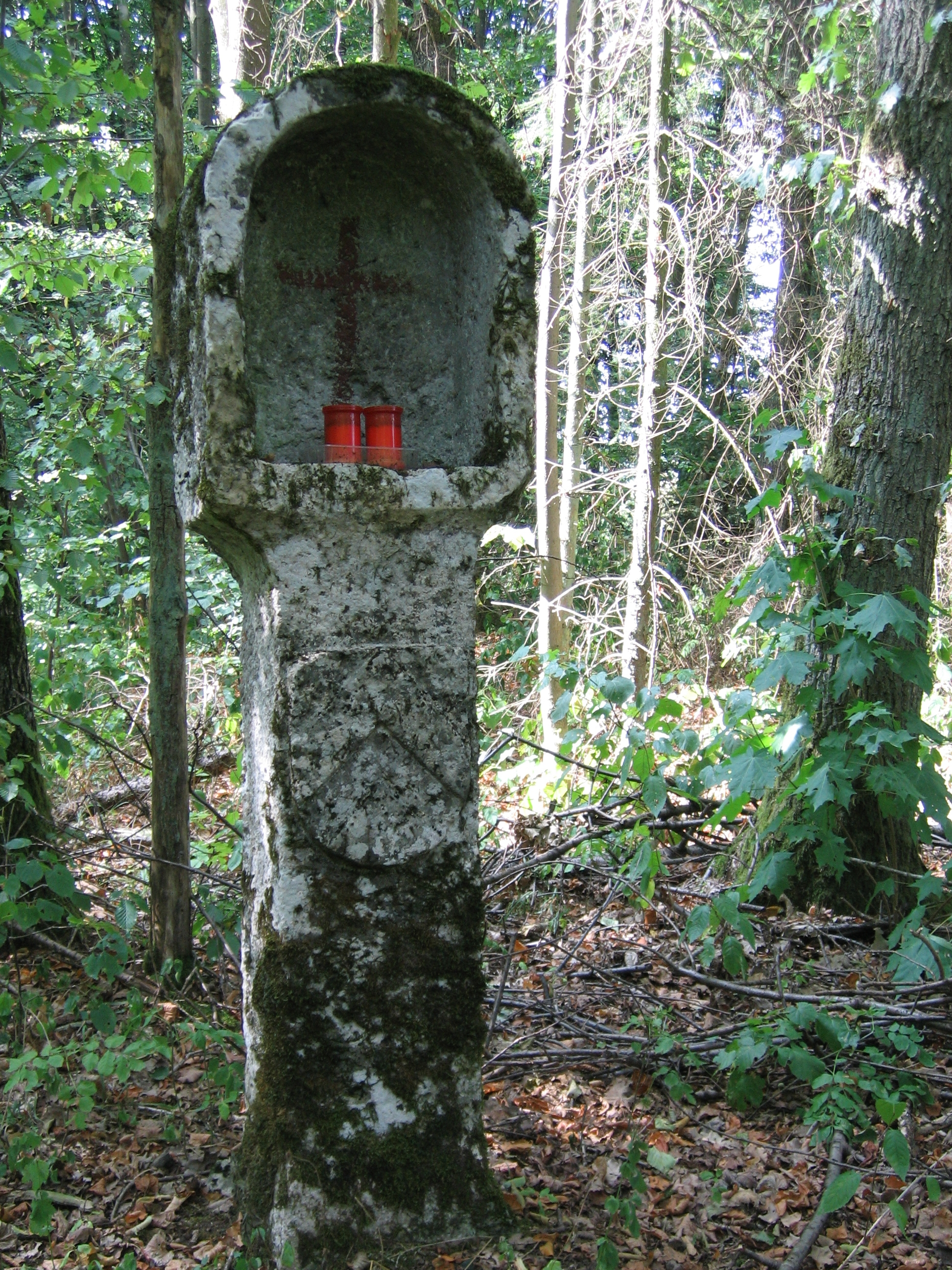 This is a photograph of an architectural monument.